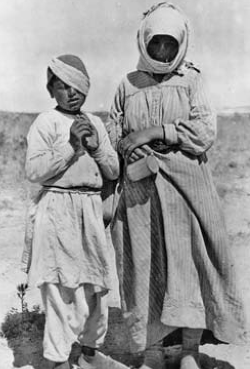 An Armenian refugee woman and her son.